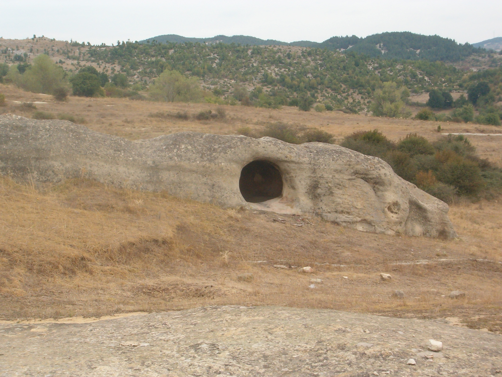 Ancient thracian tomb near village Benkovski, Kirkovo municipality, Bulgaria